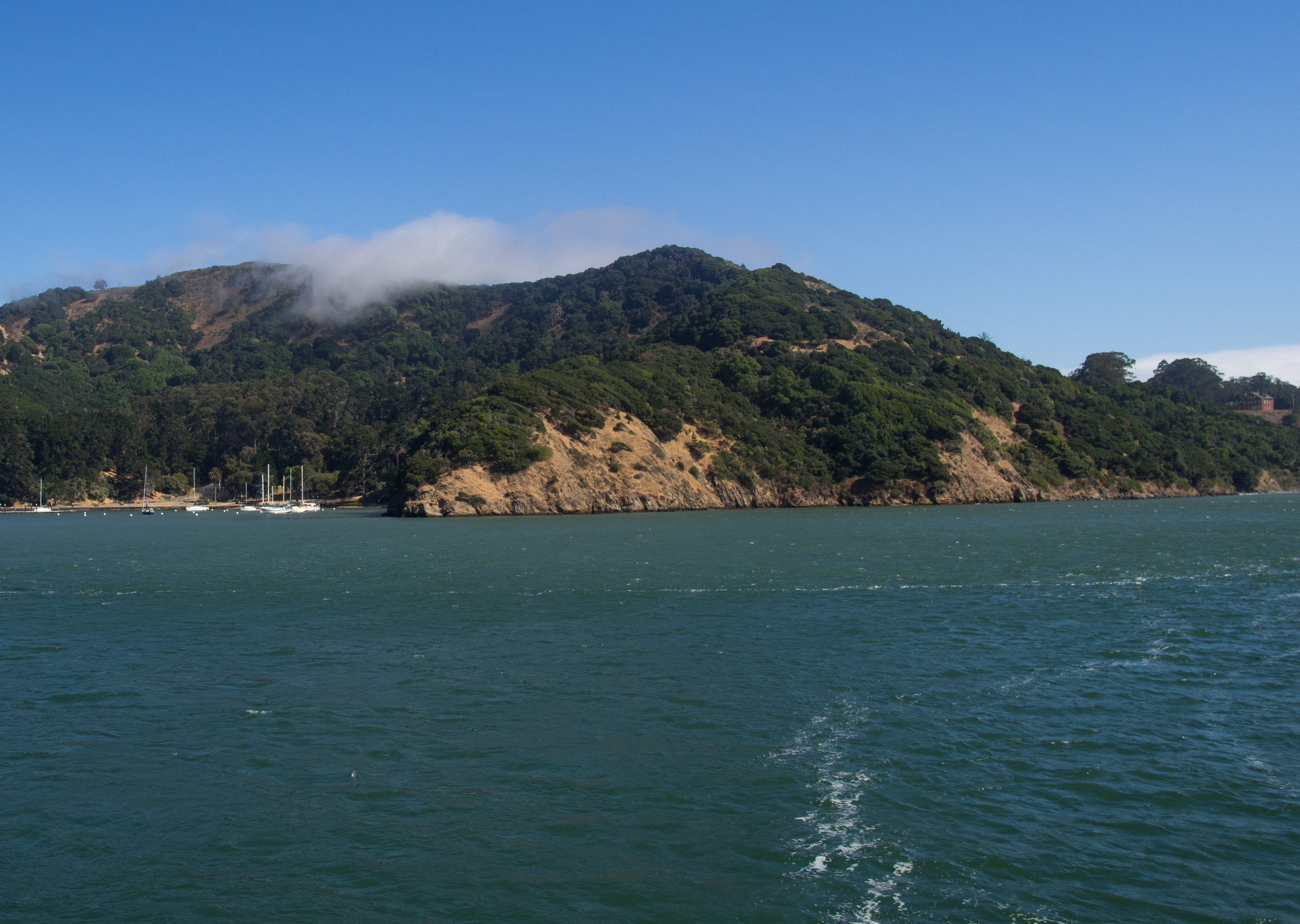 Angel Island viewed from a ferry.